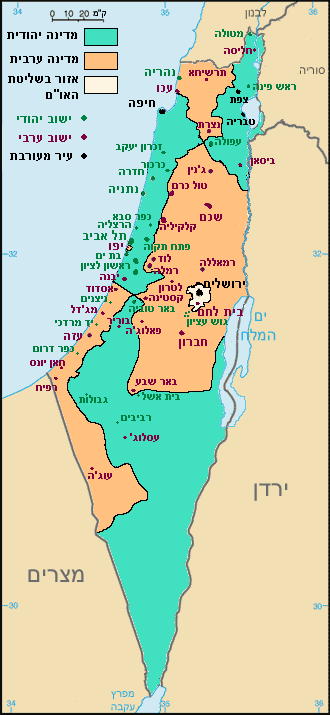 This map has been uploaded by Electionworld from to enable the Wikimedia Atlas of the World . Original uploader to was Eman, known as Eman at . Electionworld is not the creator of this map. Licensing information is below. מפת תוכנית החלוקה (מתוקנת)